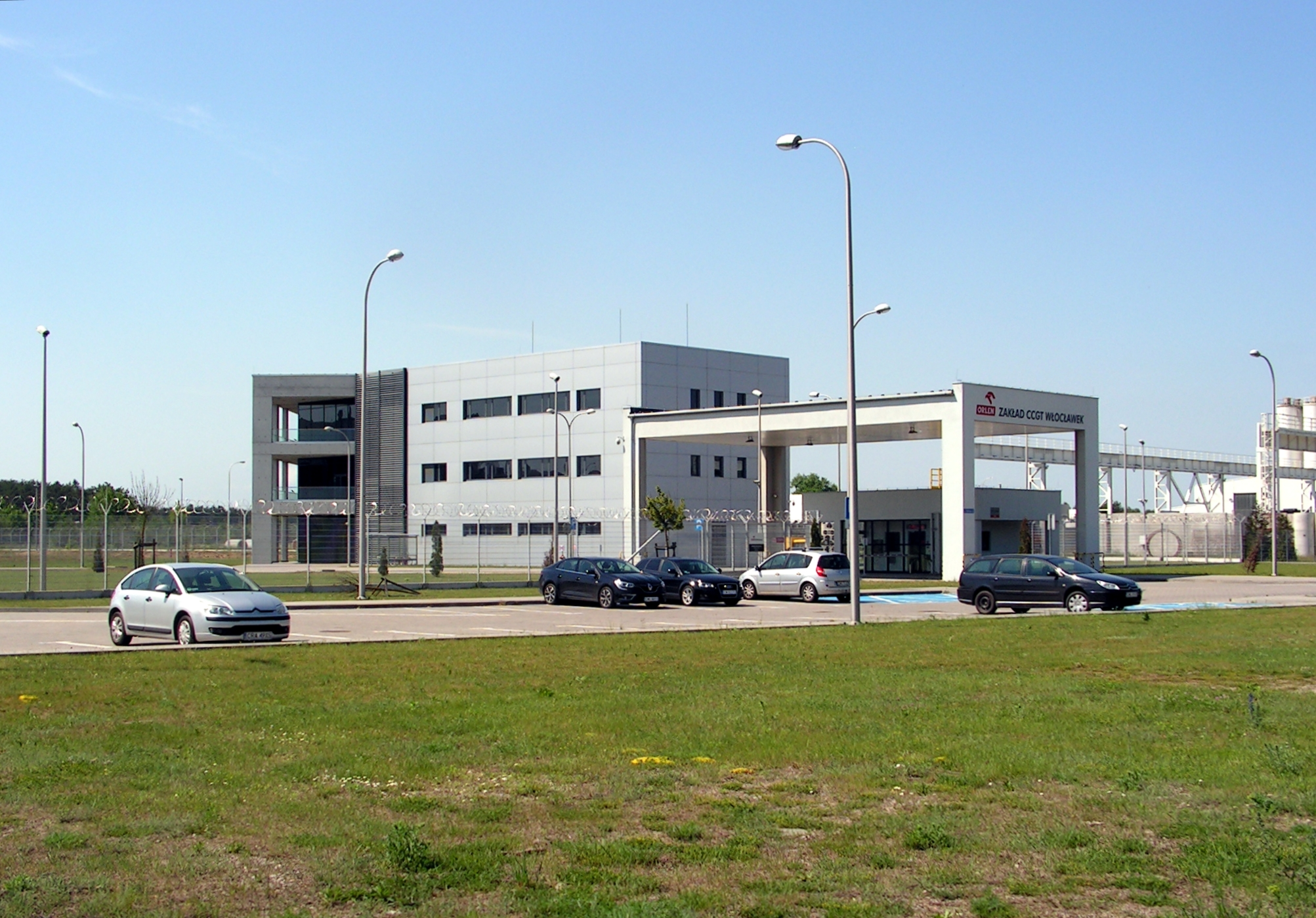 Orlen CCGT Factory at Krzywa Góra street in Włocławek.